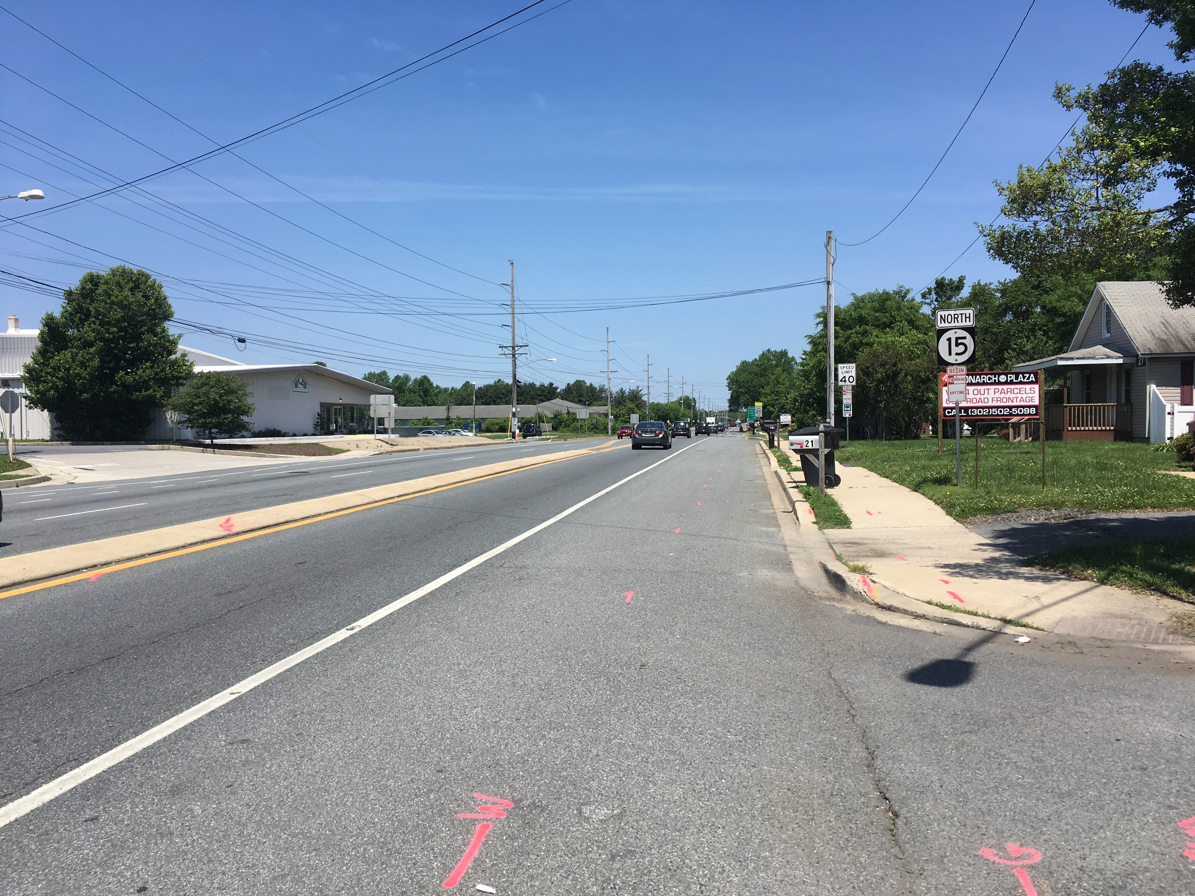 Northbound Delaware Route 15 (Saulsbury Road) past the intersection with Delaware Route 8 (Forrest Avenue/Forest Street) in Dover, Delaware